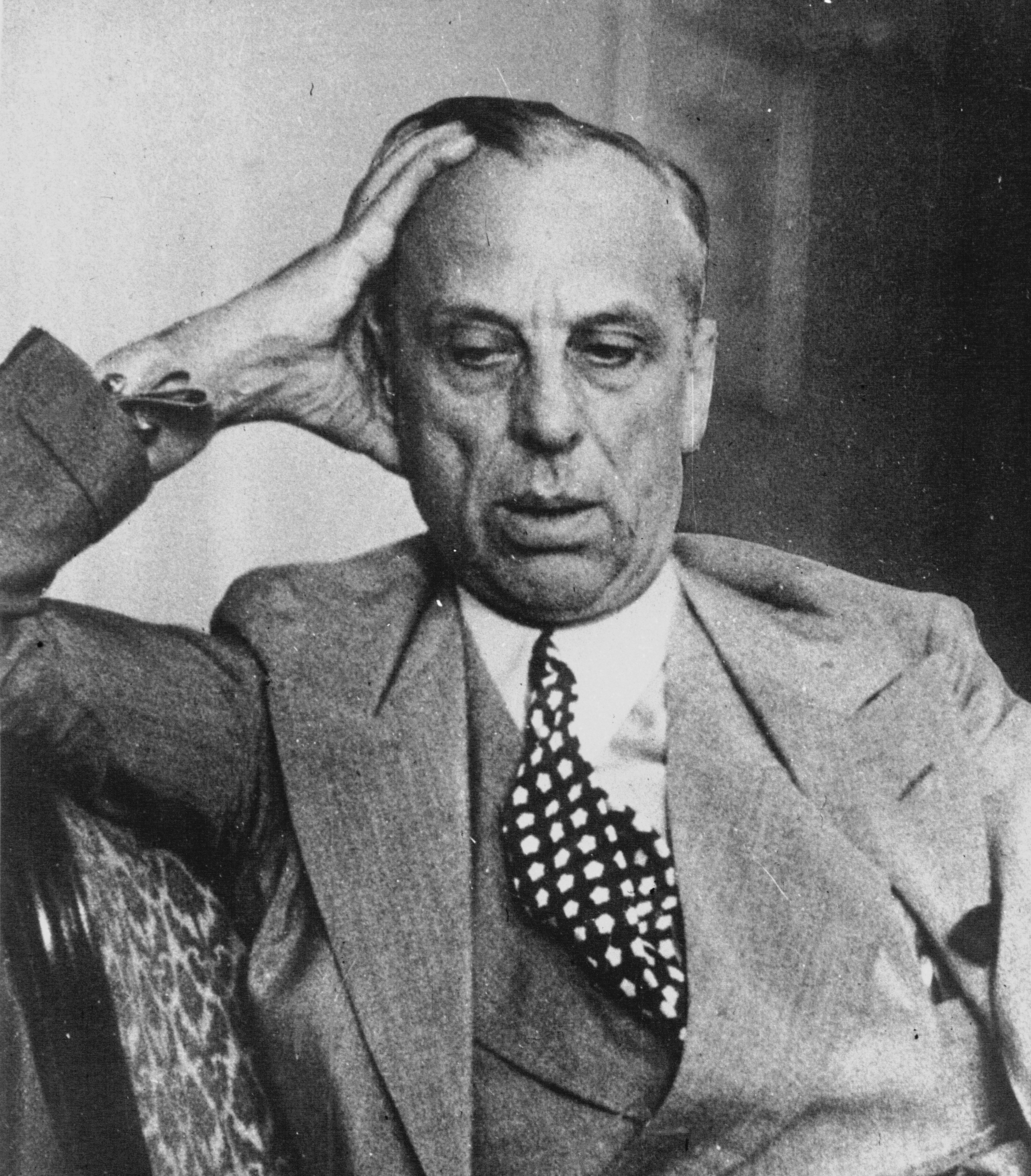 American business executive Alfred P. Sloan (1875-1966).